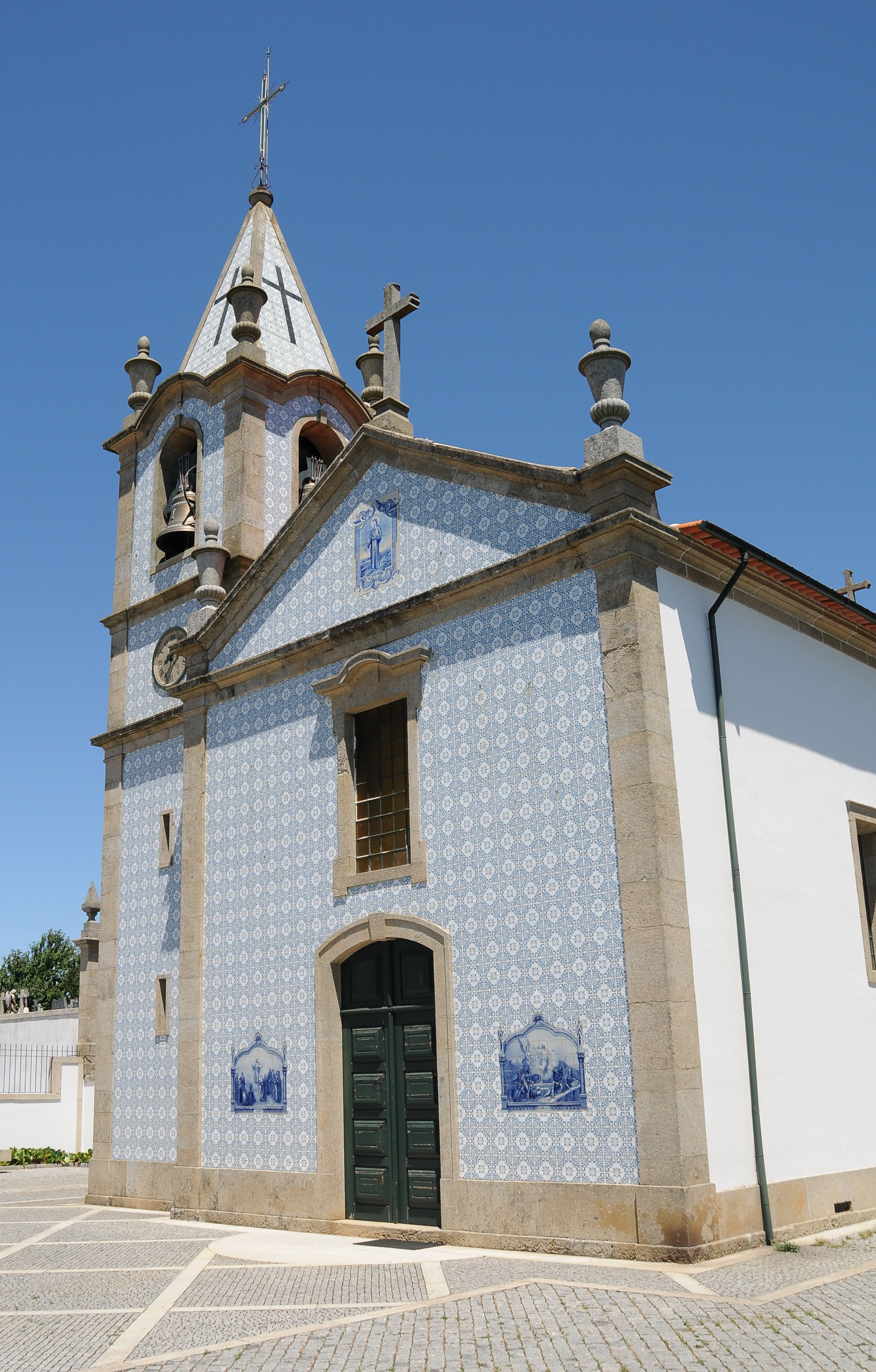 Lama Church, Barcelos, Portugal.